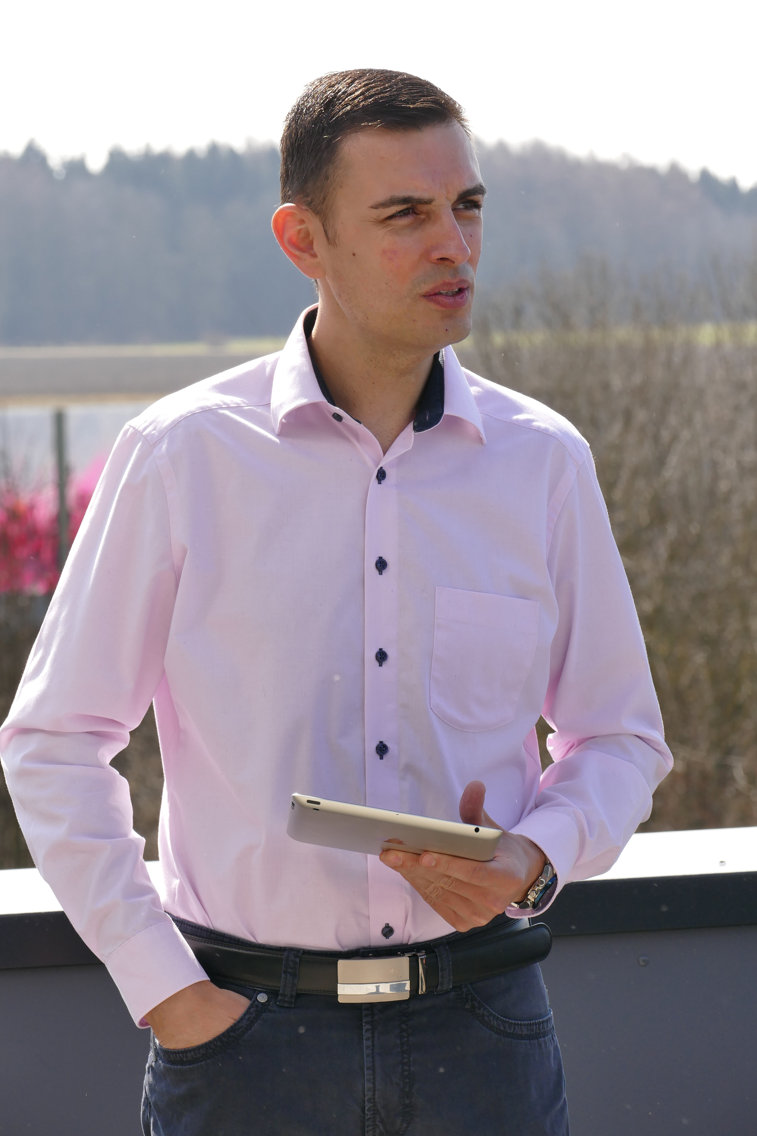 Tobias Hertfelder